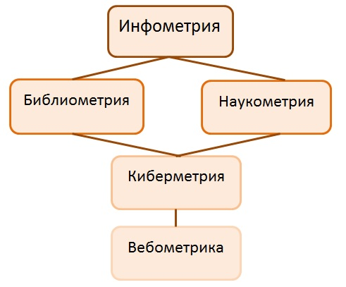 The relationships between the fields of infor-/biblio-/sciento-/cyber-/webo-/metrics. The idea was taken from paper Webometrics – Ten Years of Expansion, page 3, written by Peter Ingwersen URL